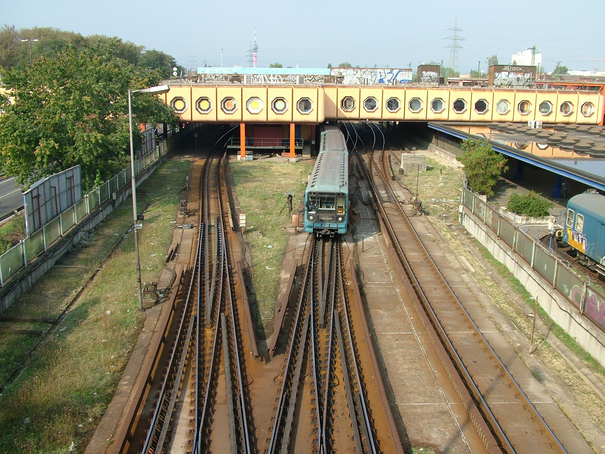 Stonemine-Smallpest station on the Budapest metro line 3 See other pictures: metros.hu